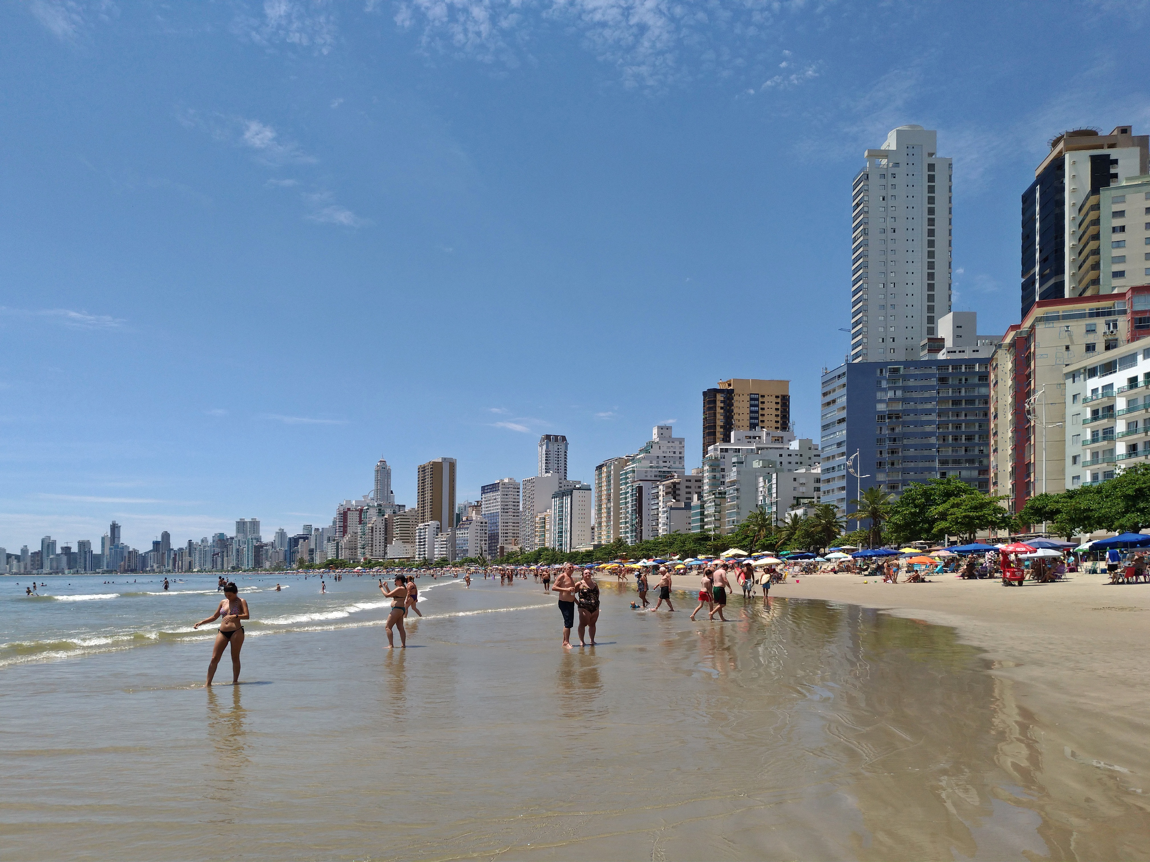 The beachfront of the Central, in Balneário Camboriú, Santa Catarina, Brazil.